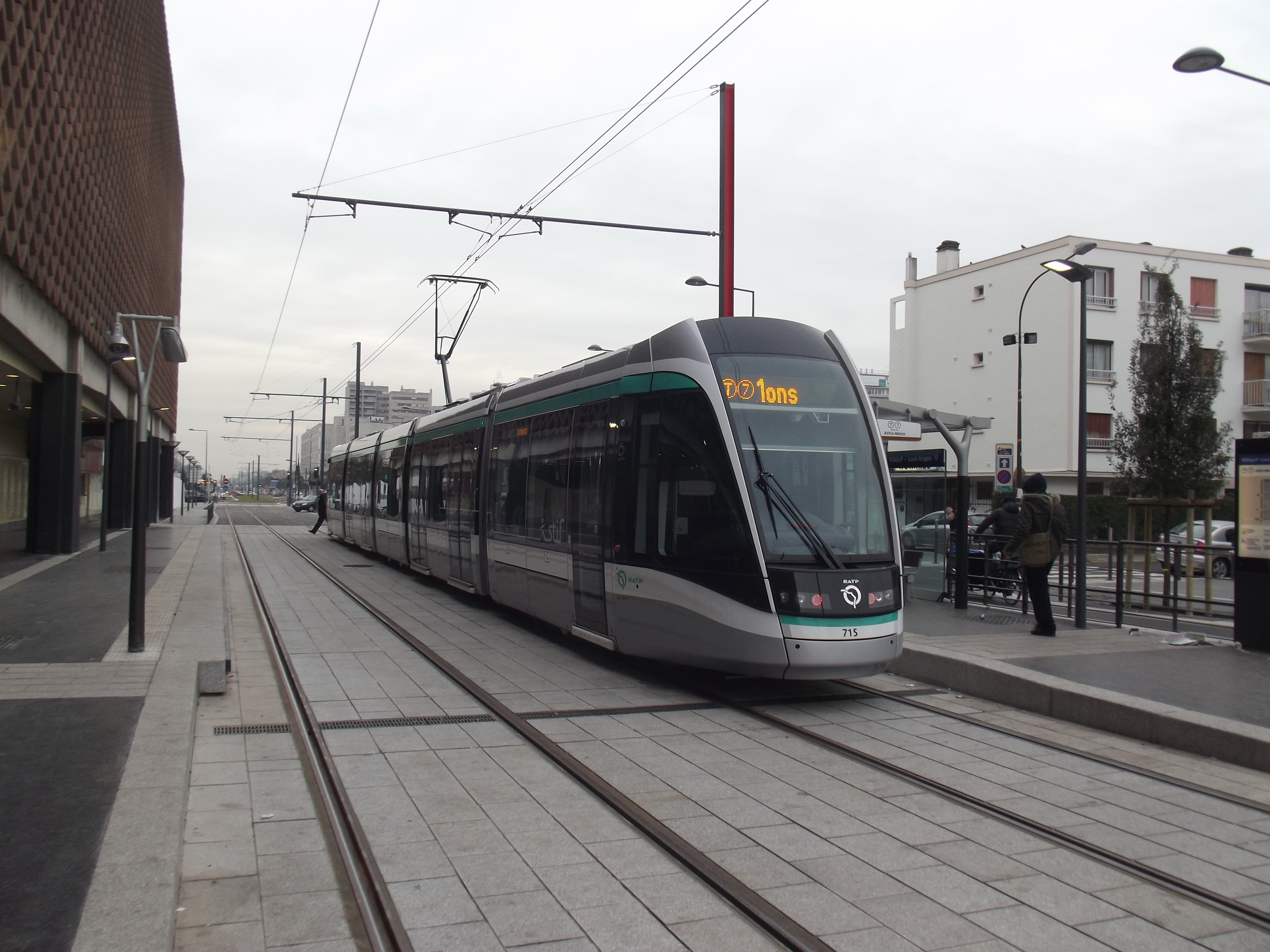 T7 tramline at Villejuif